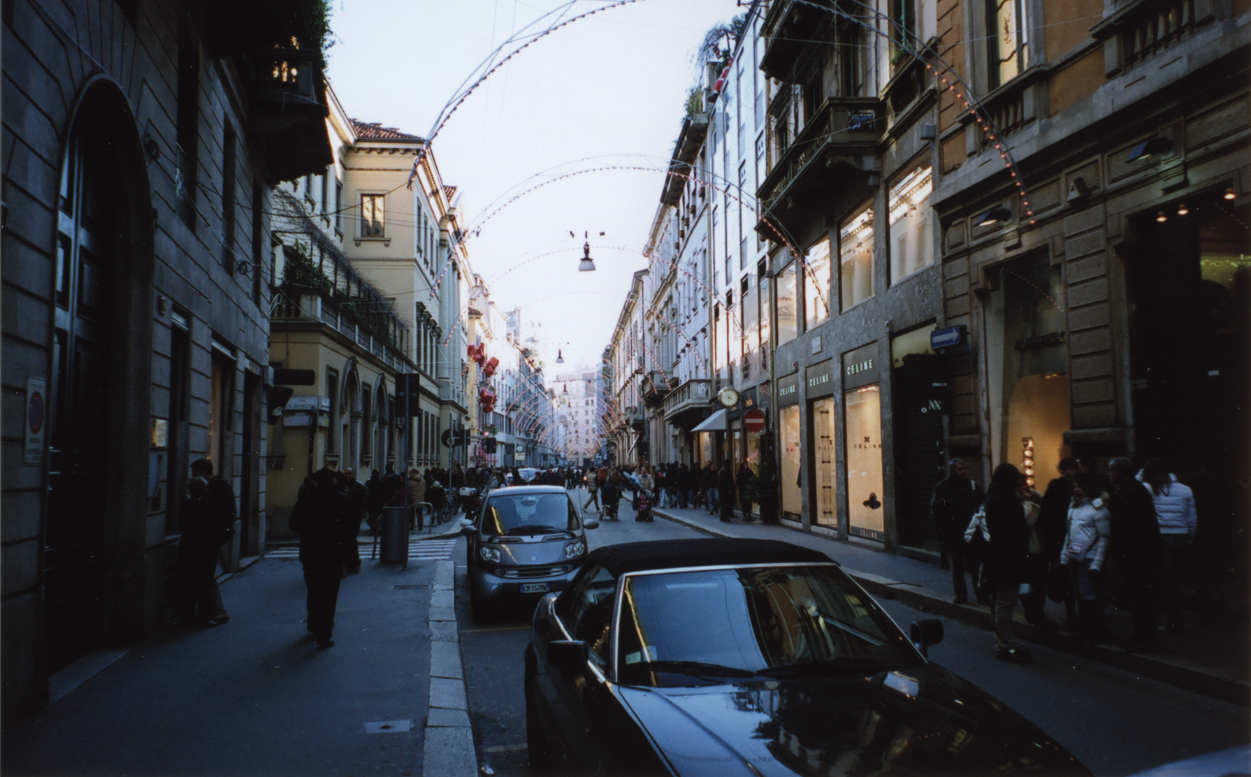 Sunday afternoon at Via Montenapoleone